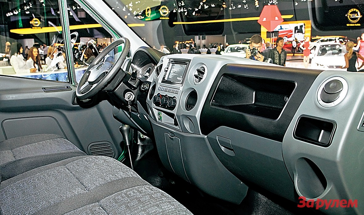 Панель приборов новой GAZel-Next